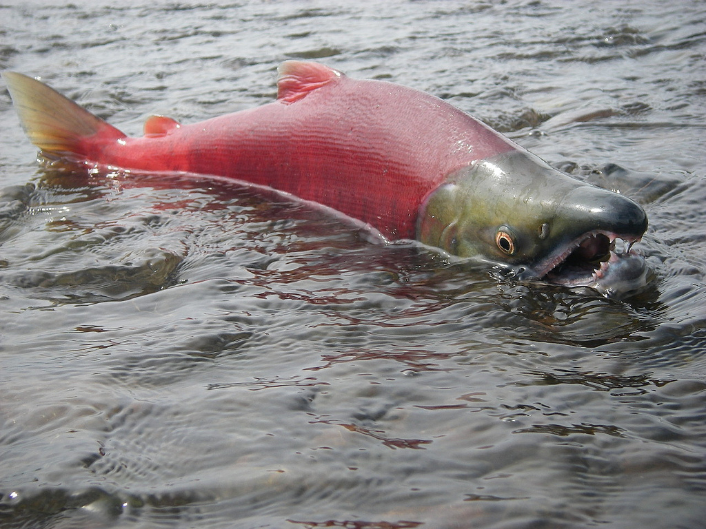 Sockeye salmon get their famously bright red color and hooked nose after they return to freshwater to spawn. Bristol Bay is home to the largest run of wild sockeye salmon in the world - with an average annual run of over 30 million fish. This photo was taken on the Wood River, which flows into the Nushagak River just north of Dillingham, Alaska. Photo courtesy of Thomas Quinn, University of Washington Visit to learn more about EPA's Bristol Bay Watershed Assessment.